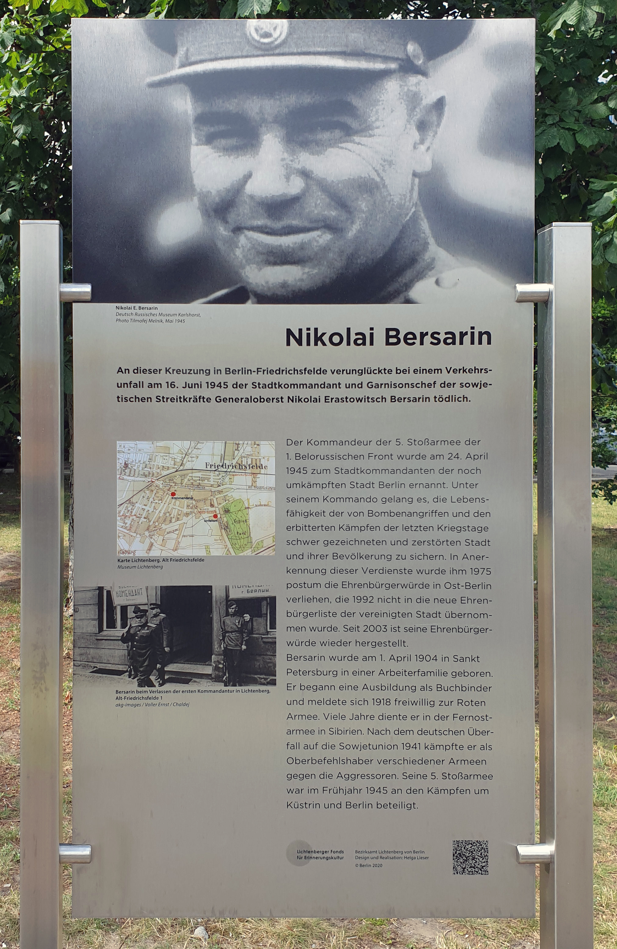 Memorial plaque, Nikolai Erastowitsch Bersarin, Am Tierpark/Alfred-Kowalke-Straße, Berlin-Friedrichsfelde, Deutschland